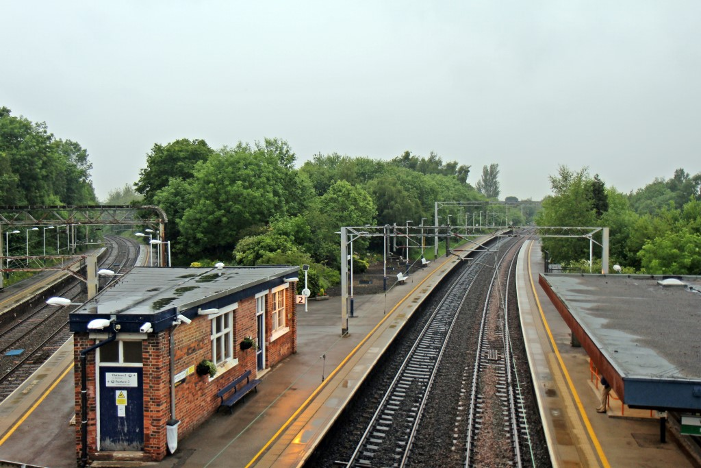 Diverging lines, Kidsgrove railway station